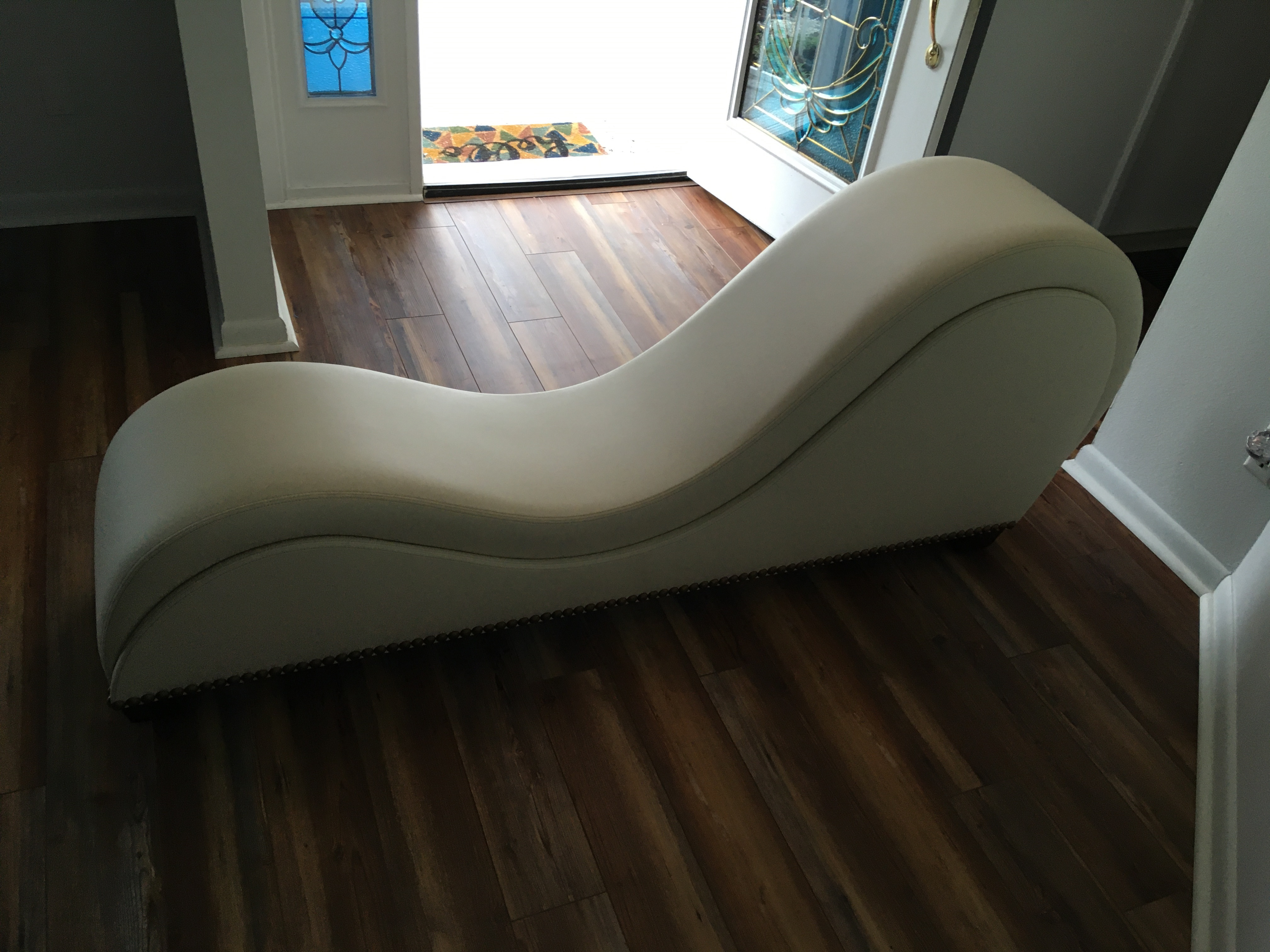 The Tantra Chair or Kama Sutra Chair designed by AJ Vitaro